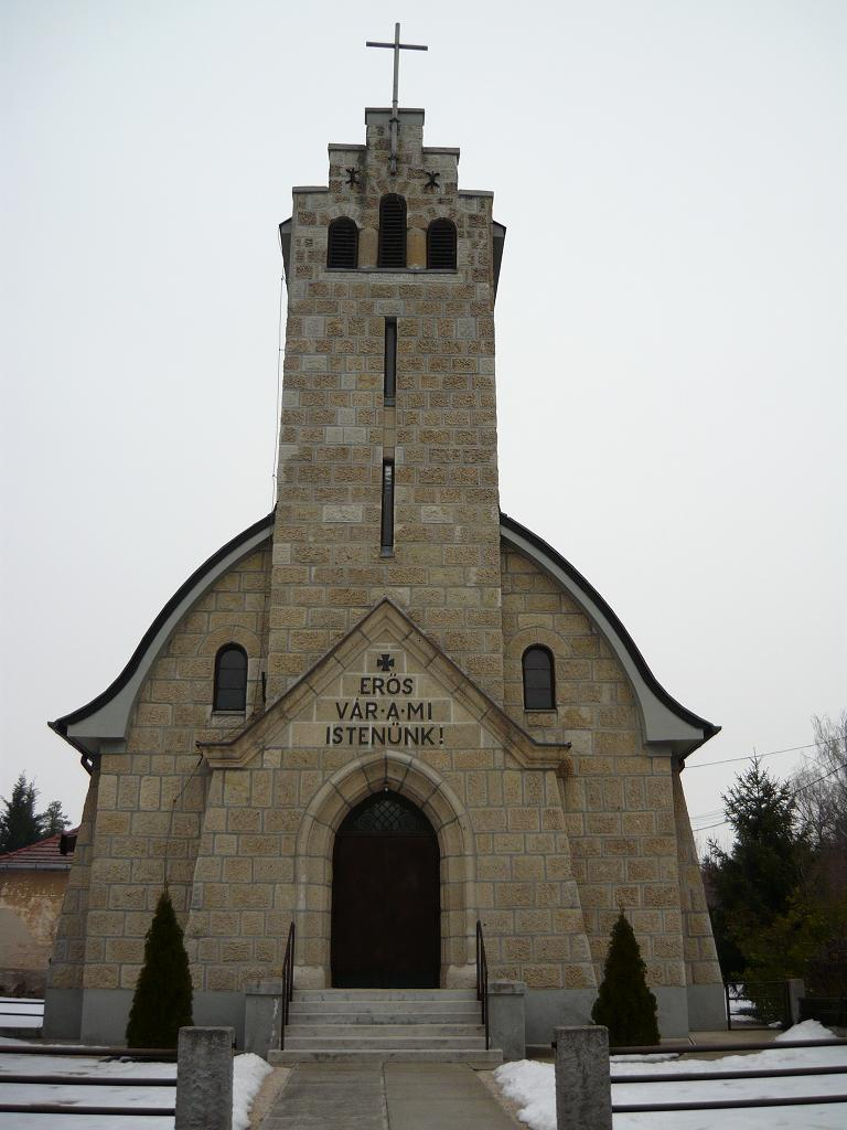 Evangelical Church in Rákosliget. Architect: Gyula Sándy (1868–1953) in 1932